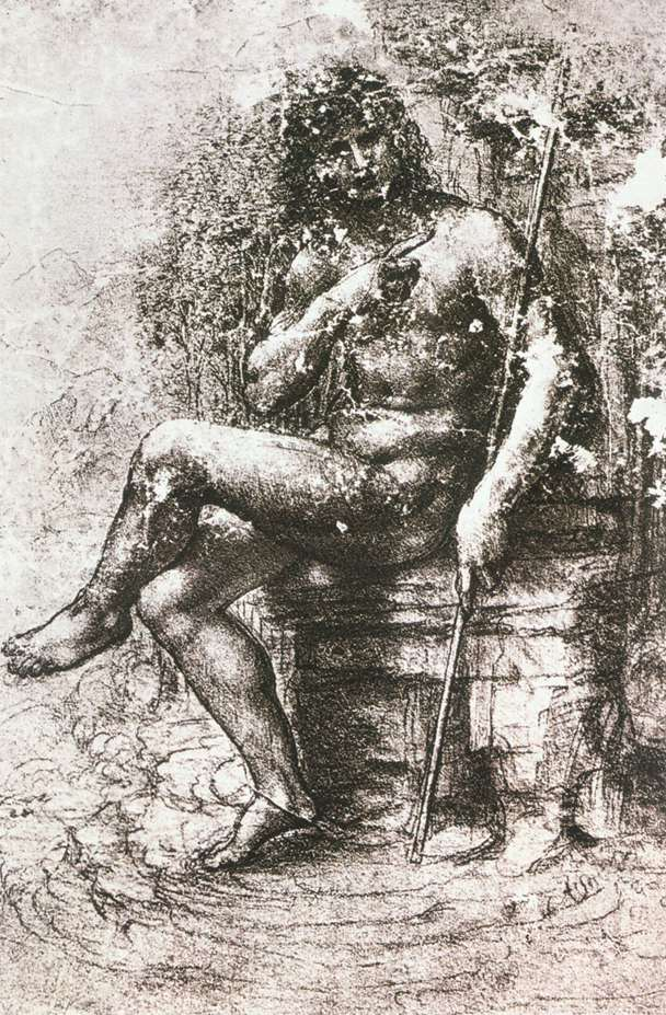 Design for St John in the Wilderness